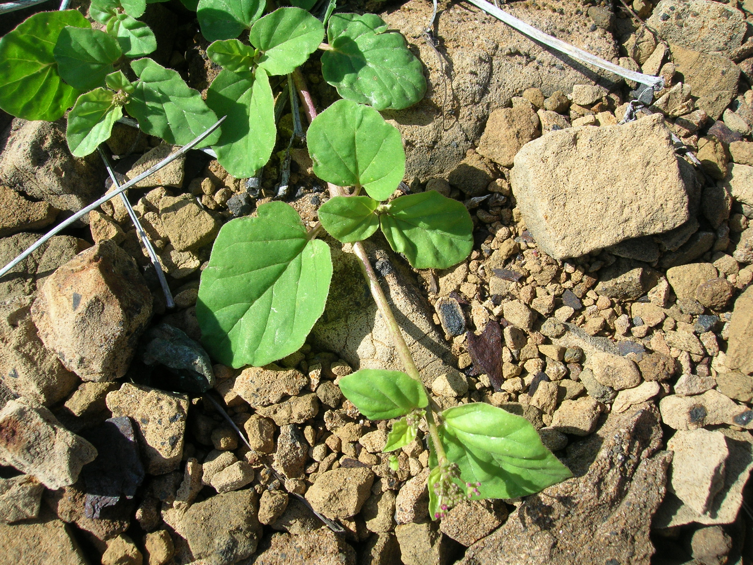 Boerhavia coccinea (habit). Location: Maui, Molokini